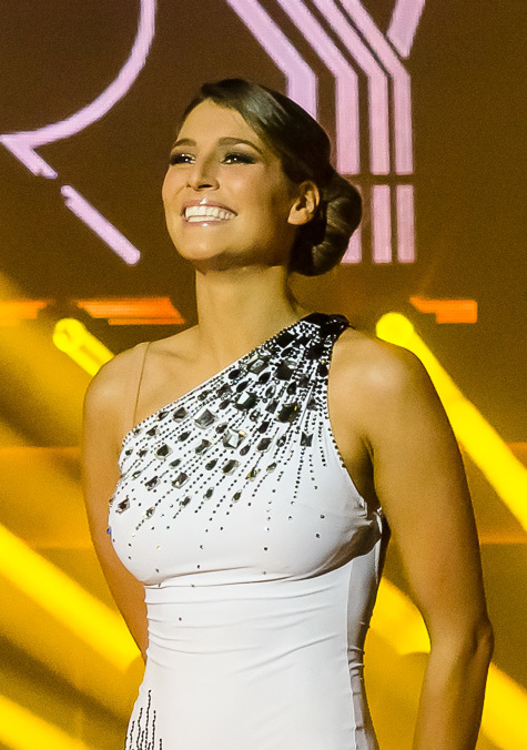 Miss France 2011, Laury Thilleman during Dance avec les stars Tournée in Lyon